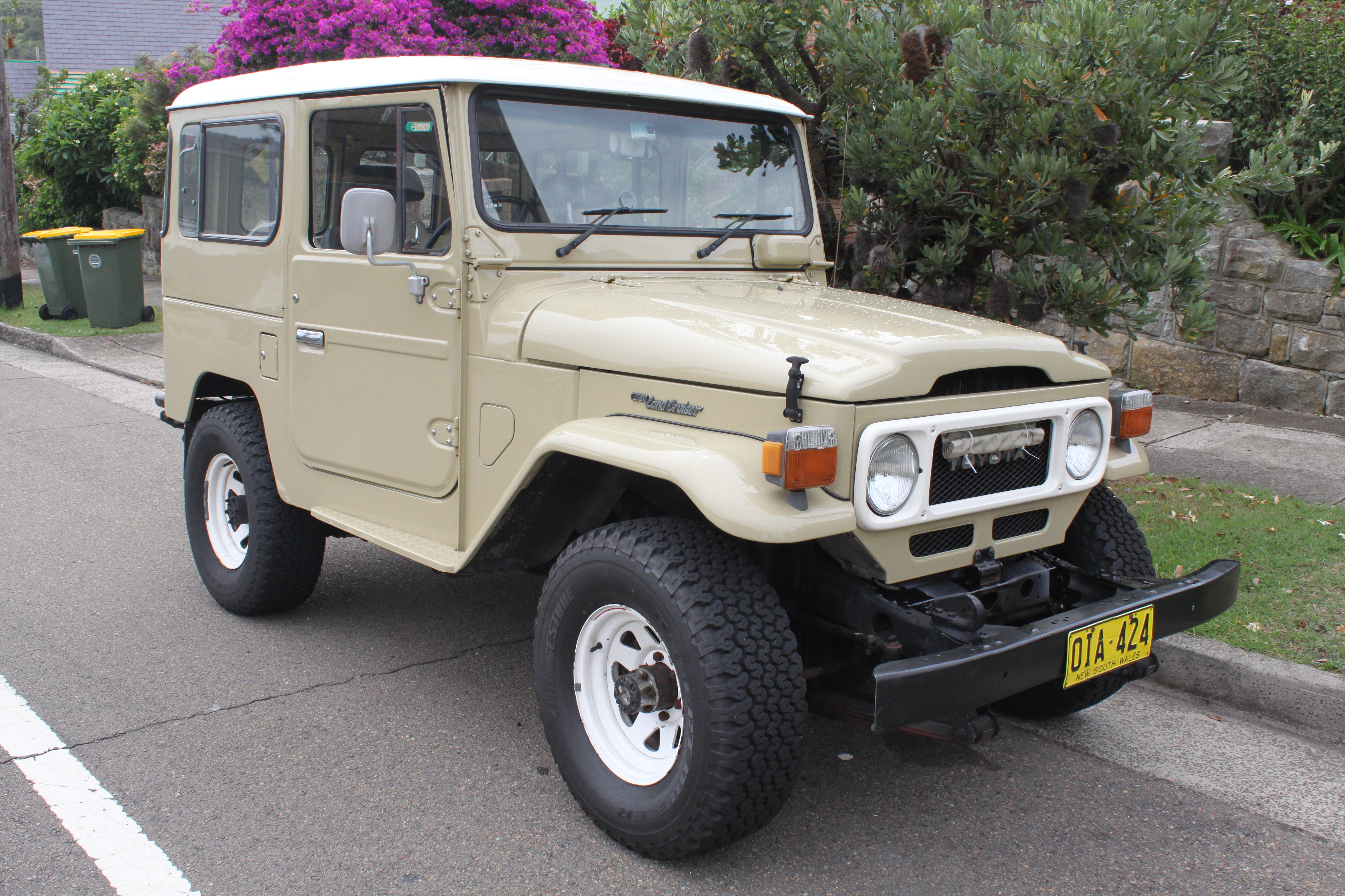 Toyota Landcruiser FJ40